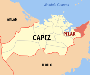 Map of Capiz showing the location of Pilar